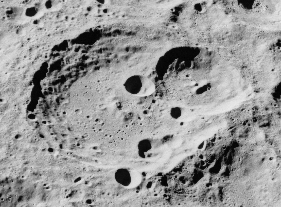 Oblique view of Seyfert, on the far side of the moon. North is in upper right.